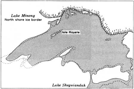 From...